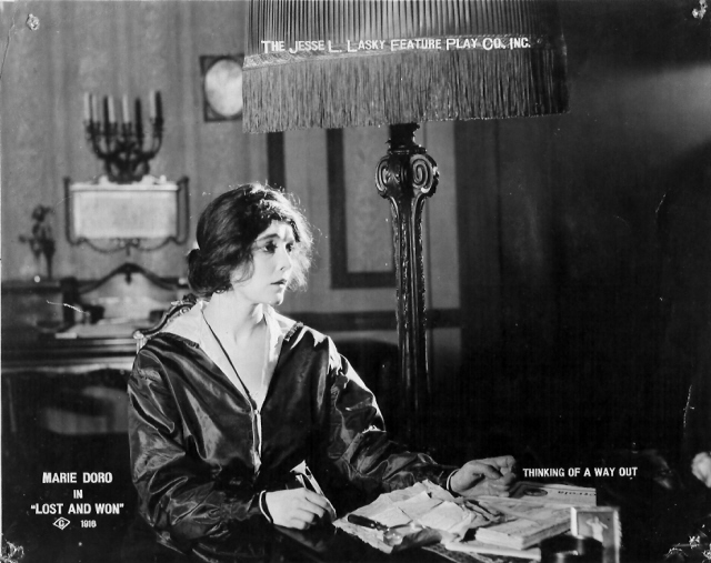 Lost and Won is a 1917 American silent drama film directed by James Young. This is a scene from the film.